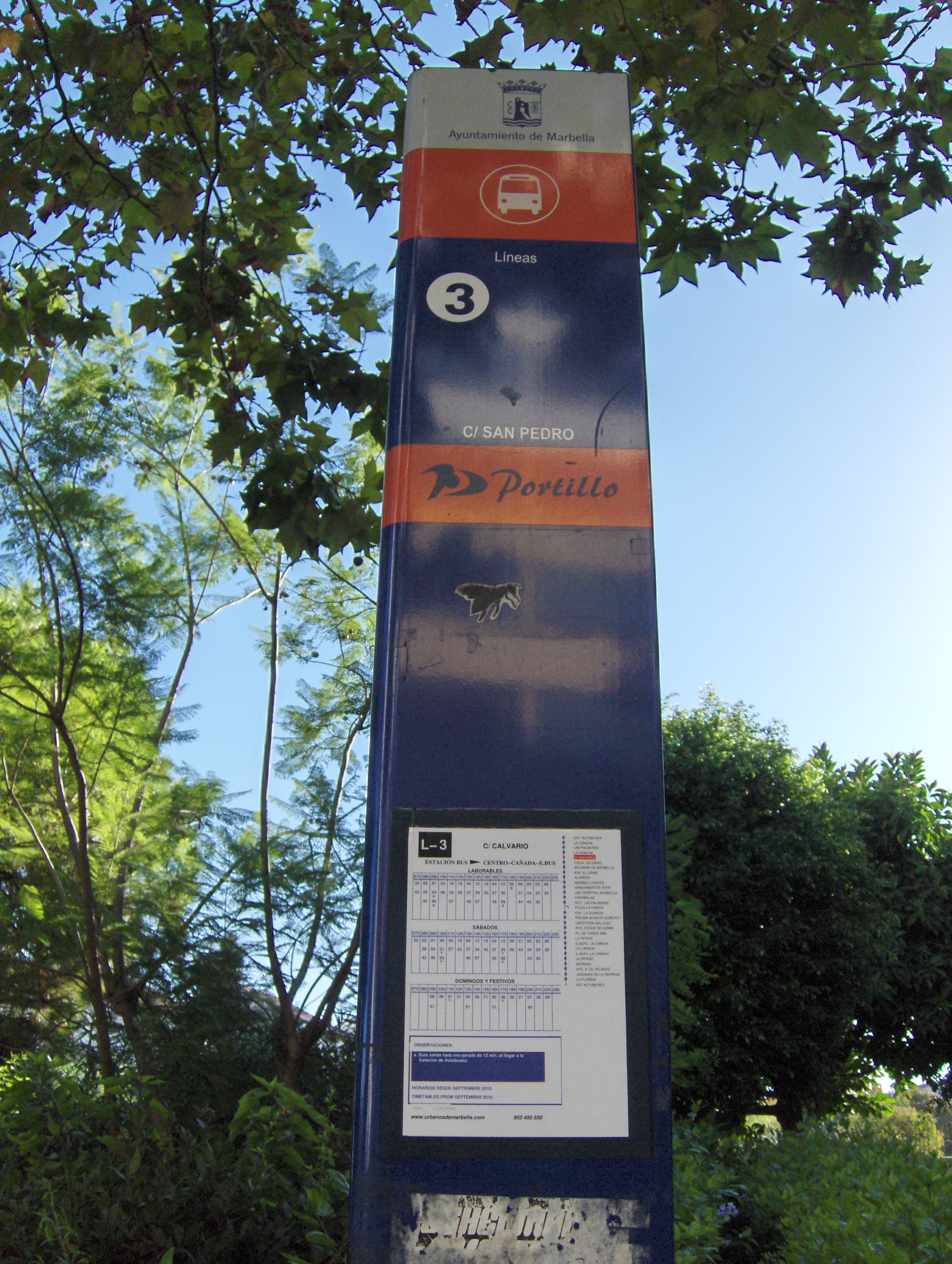 Bus info panel, Marbella.